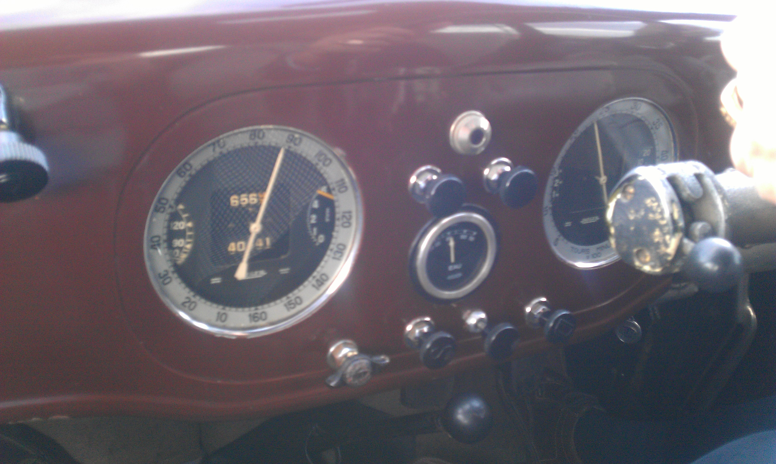 1947 Delage D6-70 by Letourneur et Marchand. View of the dashboard and of the Cotal electromagnetig gearbox lever, while driving. 4th gear is selected, engine runs at 2400 rpm, speed 90 km/h.